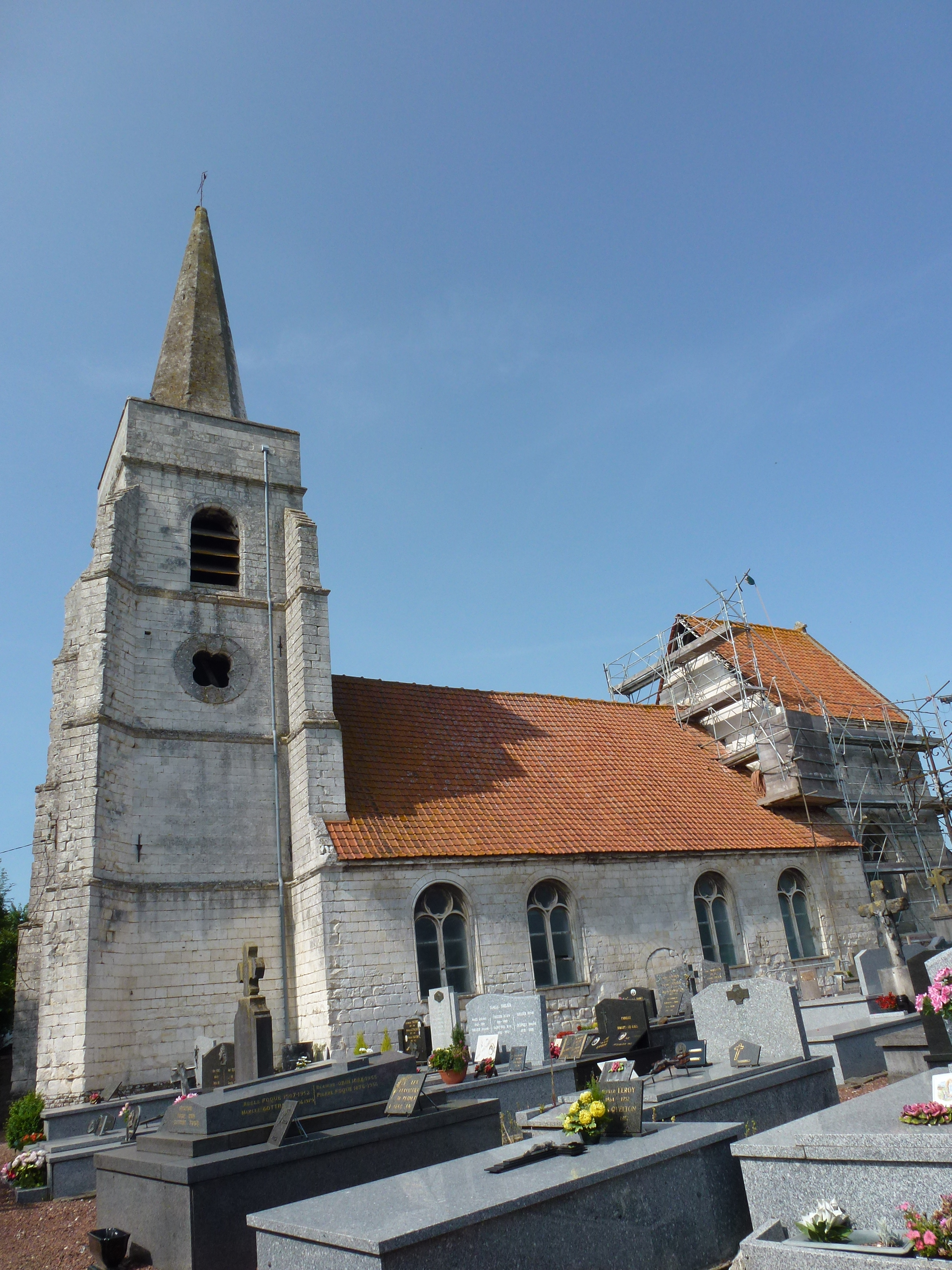 Enquin-les-Mines (Pas-de-Calais, Fr) église de Serny